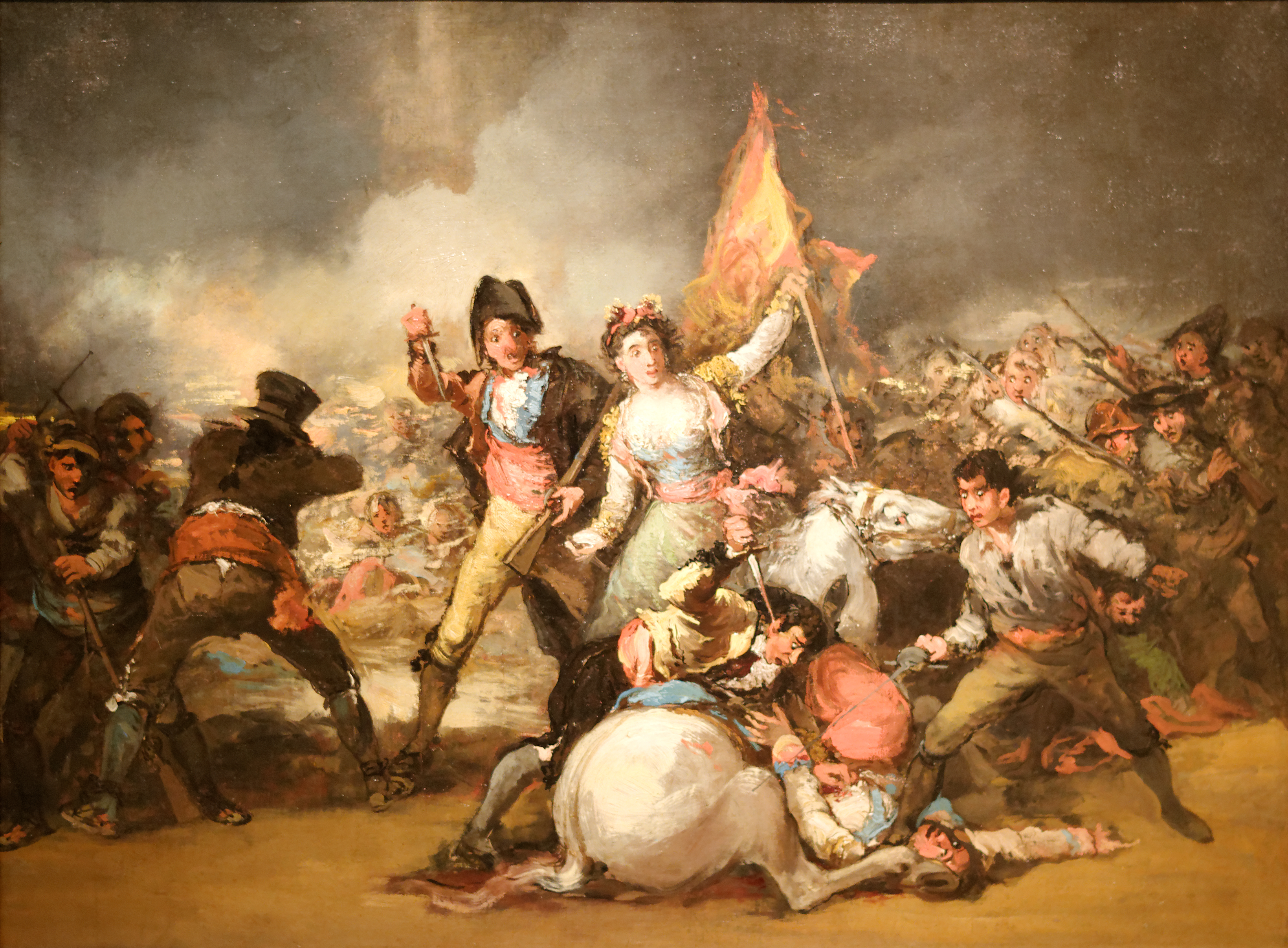 The second of may. Eugenio_Lucas_Velázquez (1817-1870). Painted in 1869. Exposed in the Budapest Museum of Fine Arts. Purchase in 1951